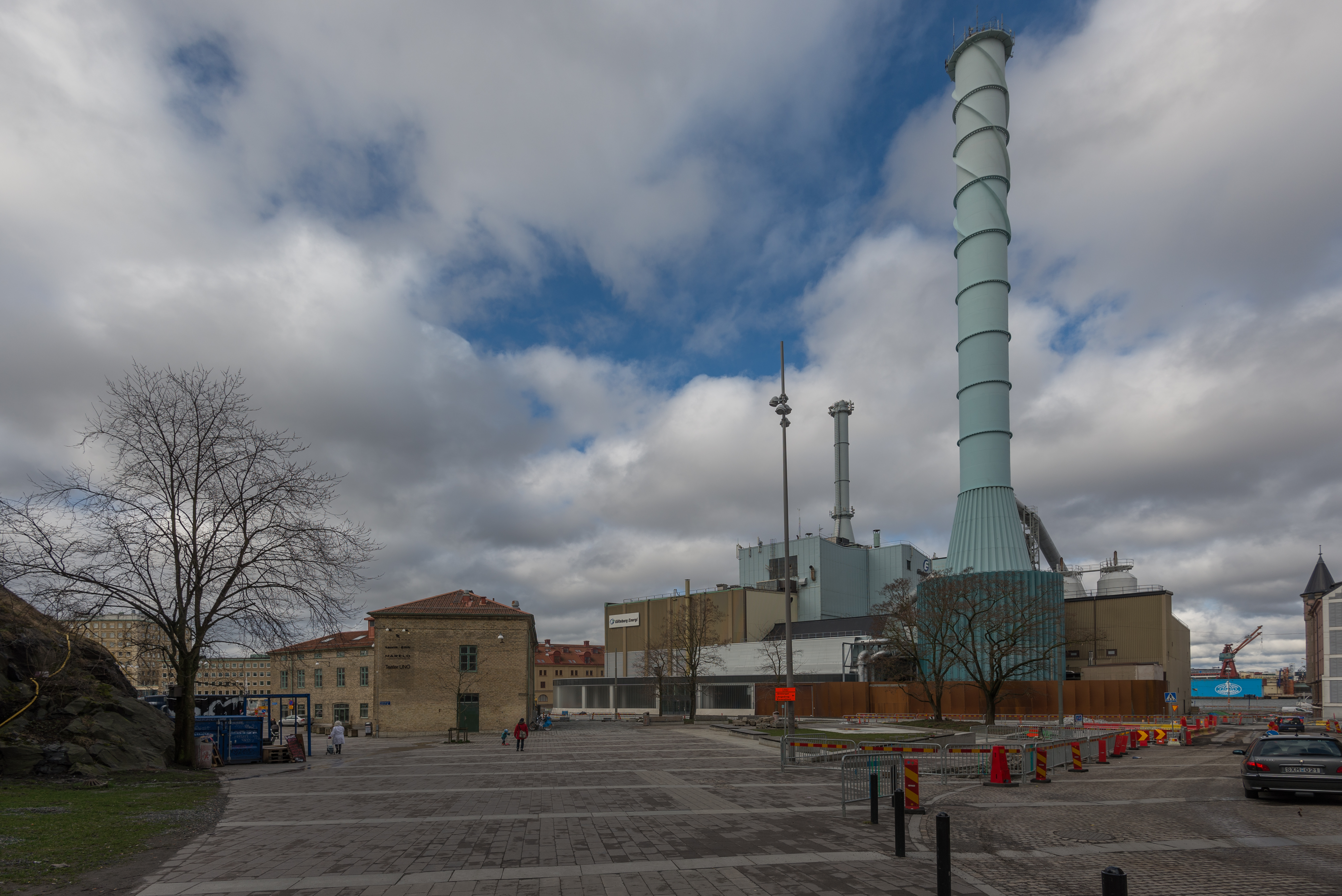 Esperantoplatsen (Esperanto squar). Gothenburg, Sweden.